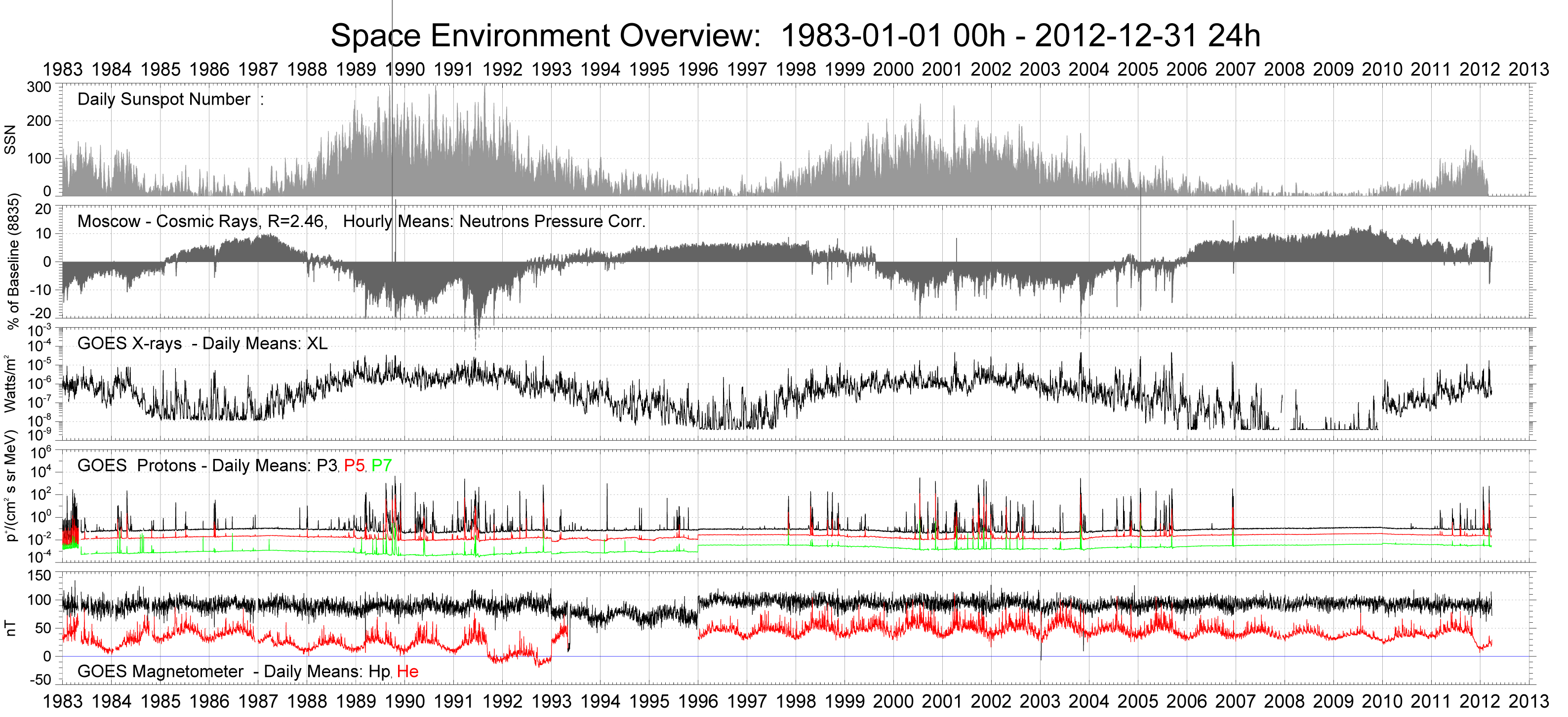 An overview of the space weather conditions over several solar cycles shows the relationship between sunspot numbers and cosmic rays.